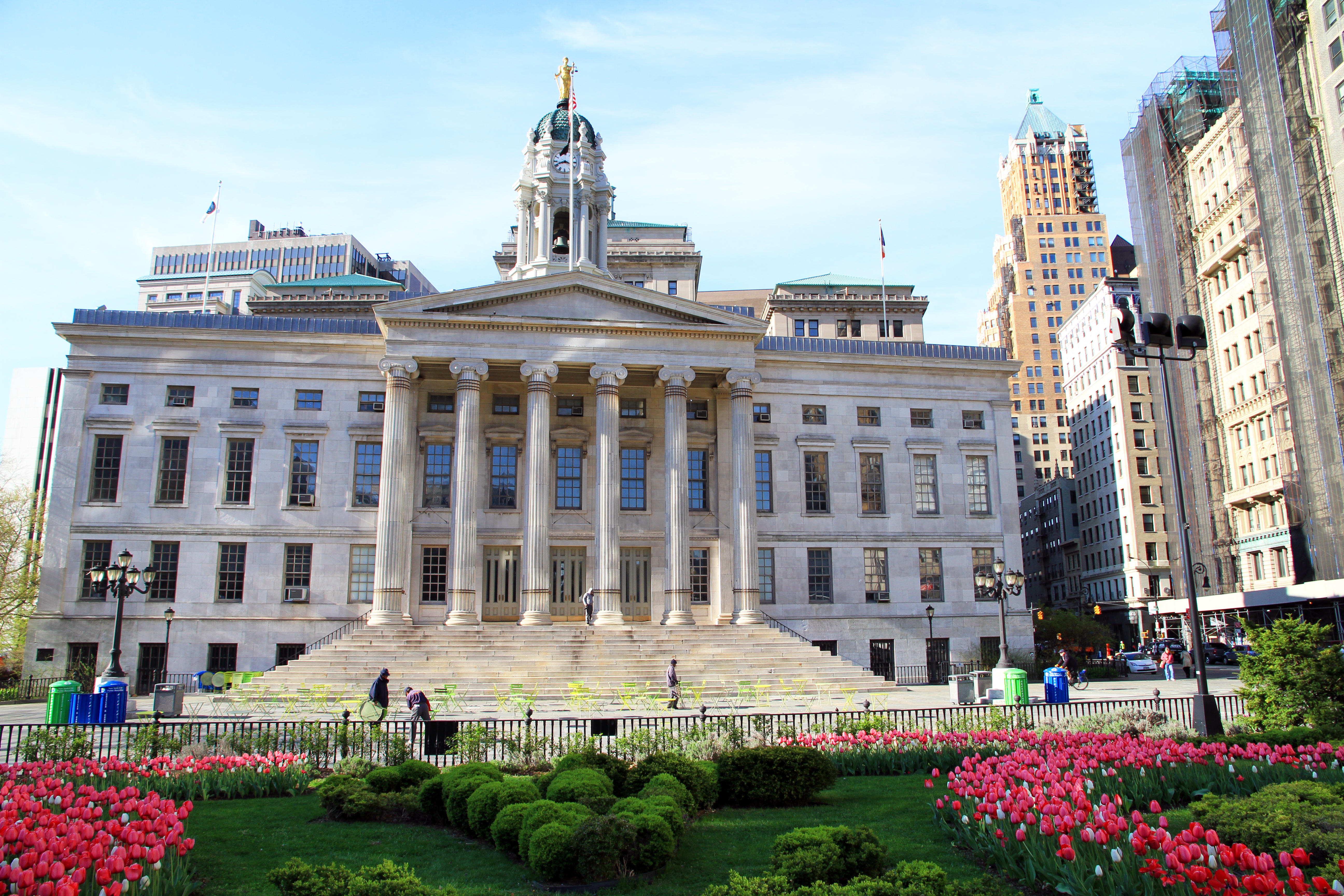 Brooklyn Borough Hall